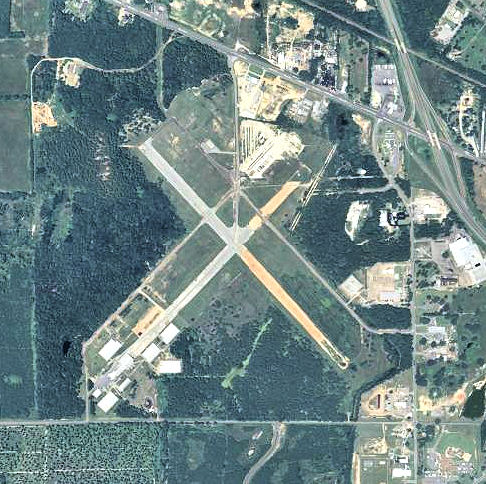 USGS digital orthophoto of Commodore Decatur Airport in Georgia